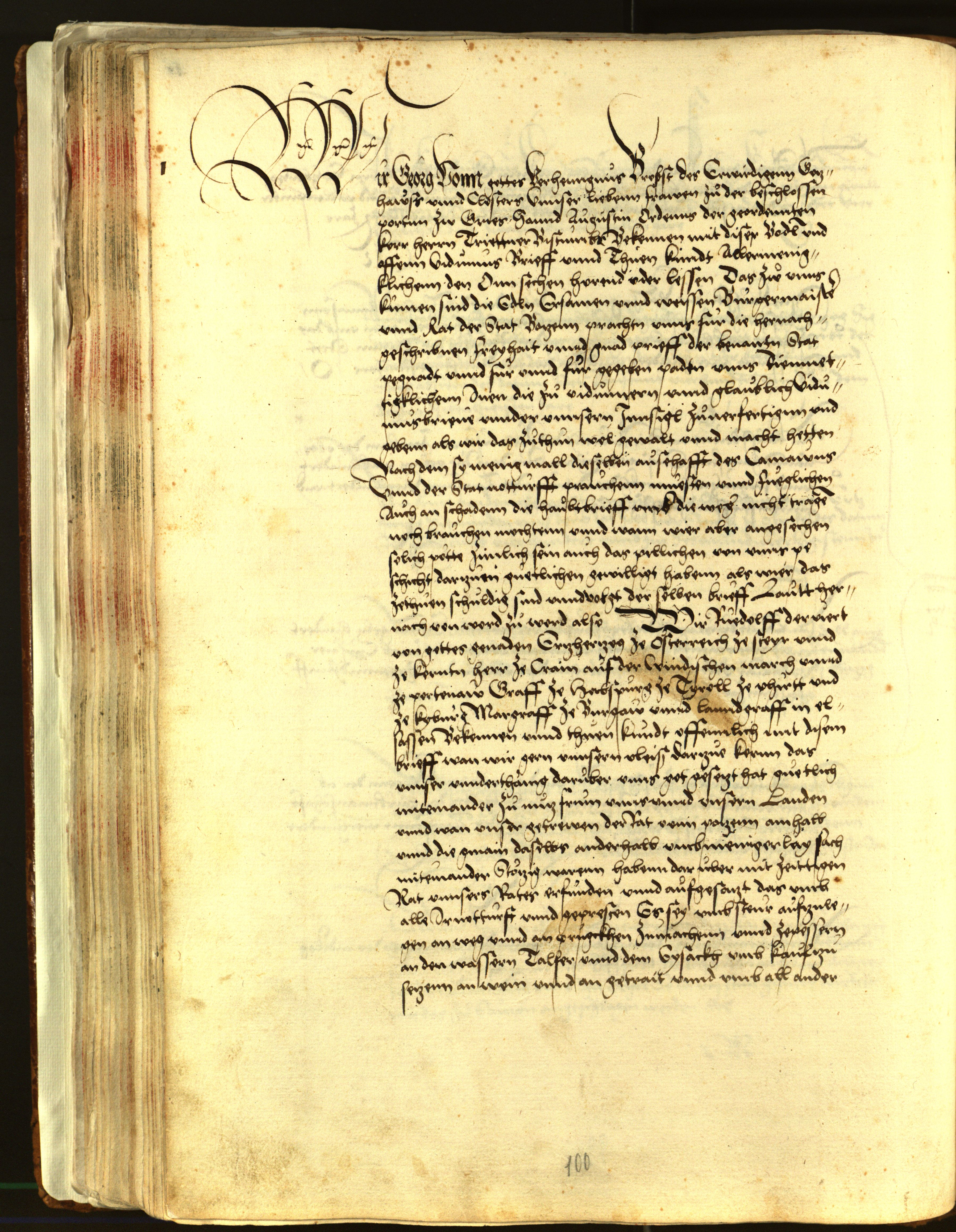 Folio 76 verso from the so-called Stadtbuch, Bozen-Bolzano's old Town's Register of 1472-1525, containing a minute of the archduke Rudolf's privilege for Bozen-Bolzano dated to 1363 Sept. 29th